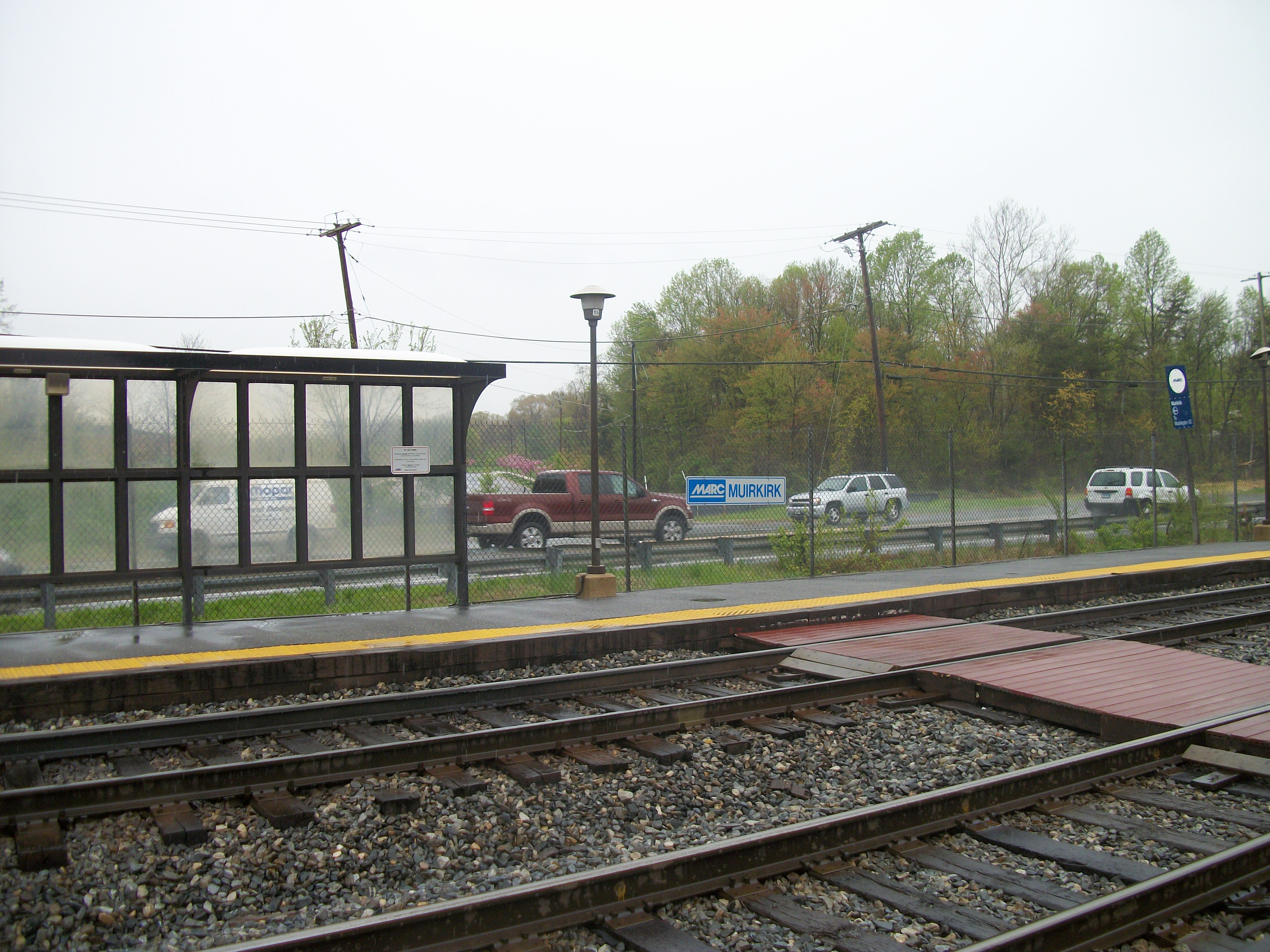 The southbound platform of Muirkirk (MARC station) along the northbound lanes of US 1 in Beltsville, Maryland.